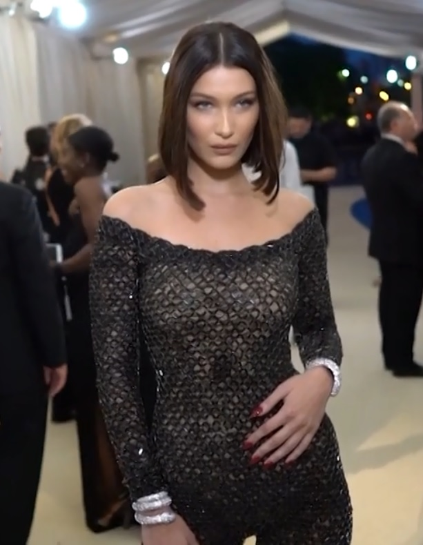 Bella Hadid at Met Gala 2017.